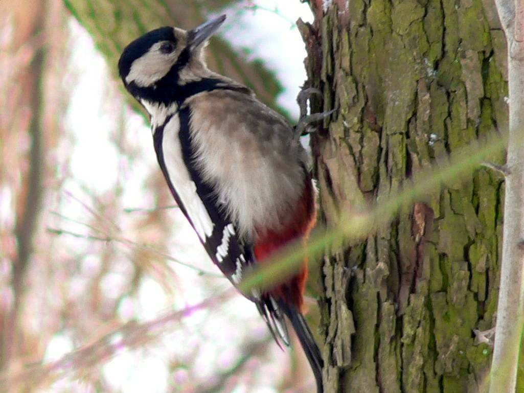 Great Spotted Woodpecker